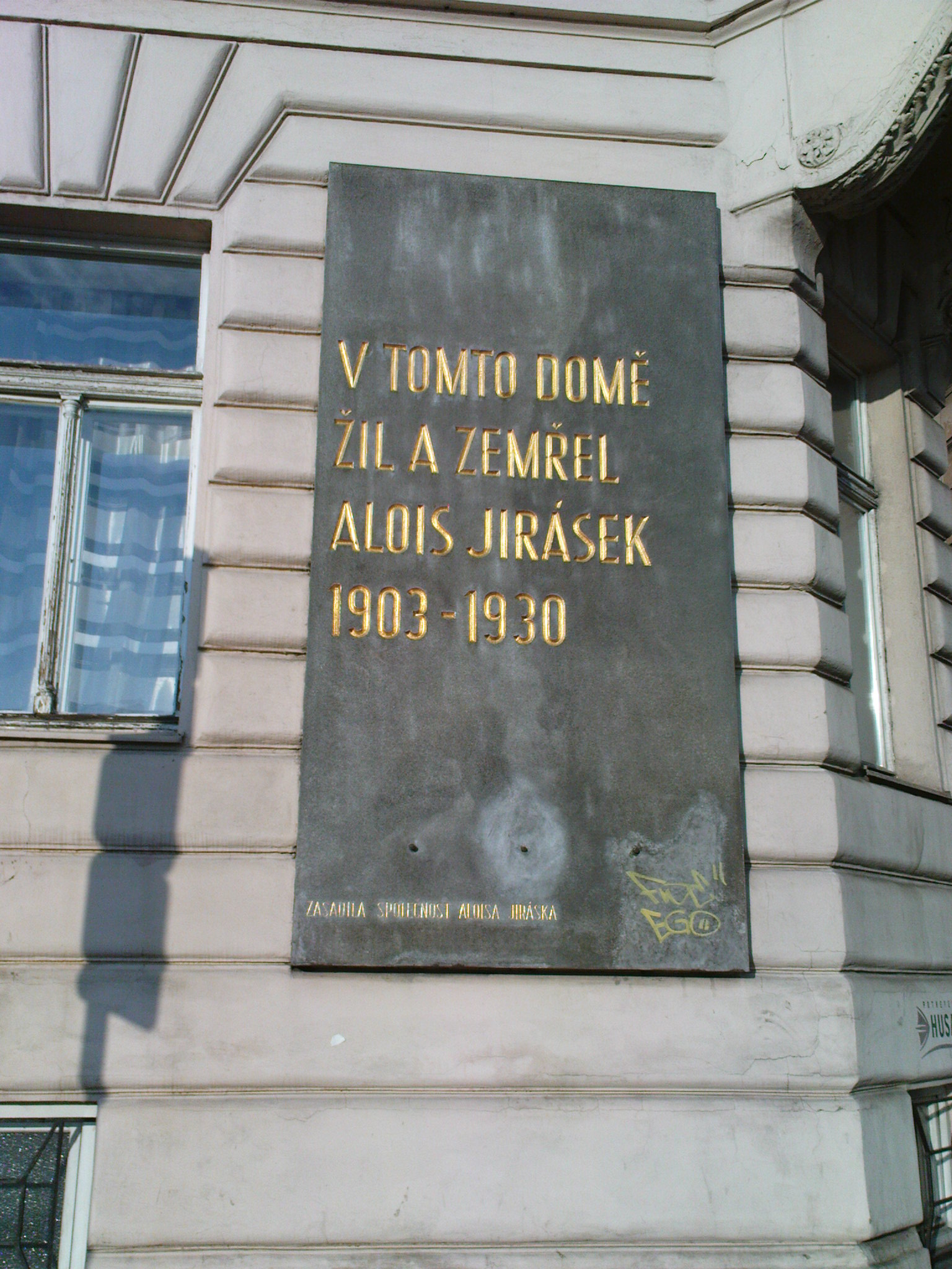 Huge commemorative plaque on the house, where famous Czech 19-century-writer Alois Jirásek lived and died (Jirásek square, Prague 2)